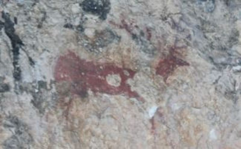 Abrigo de Arpán: Ciervo estile levantino